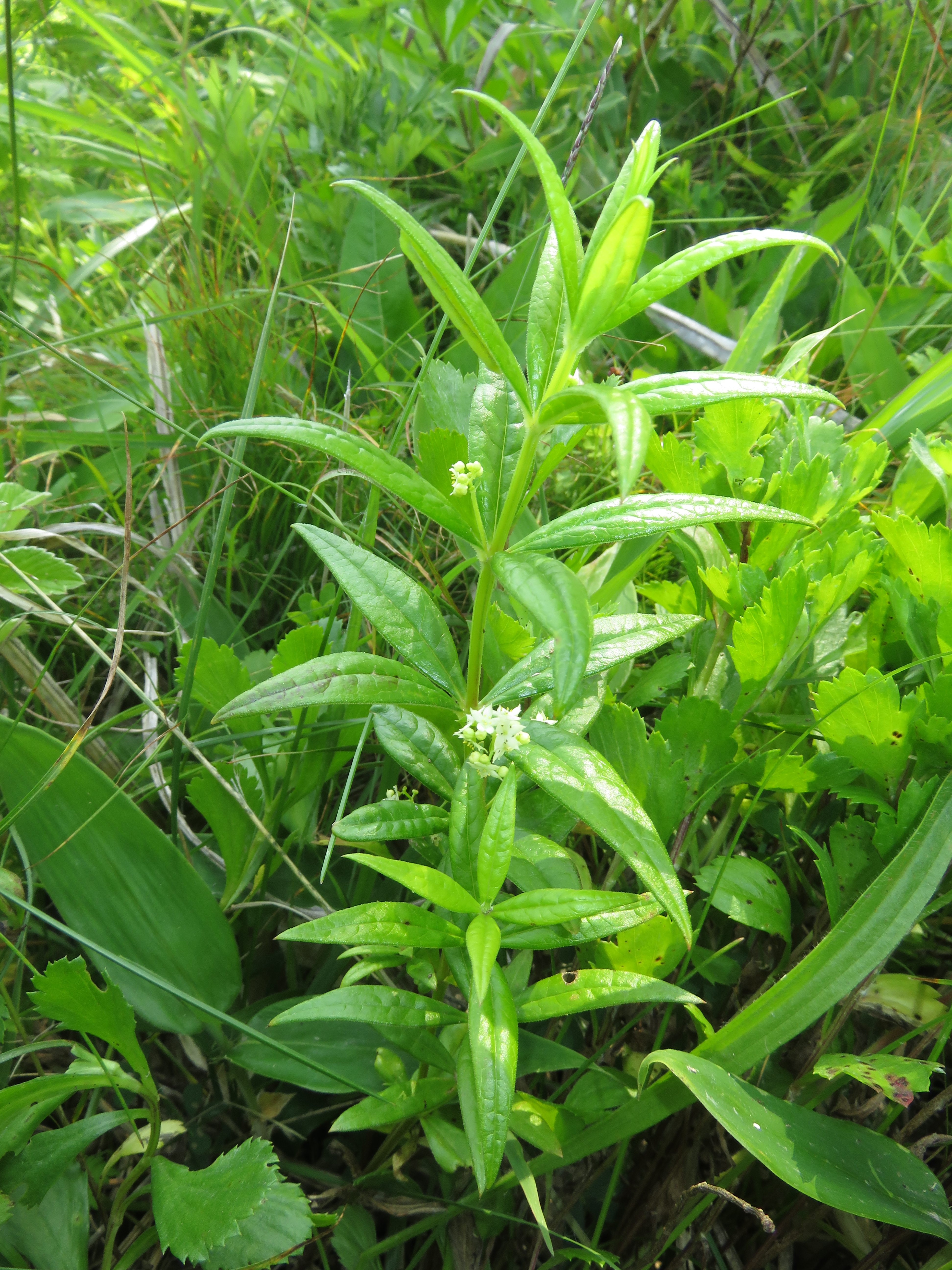 Rubia jesoensis, Tanesashi Coast, Aomori pref., Japan